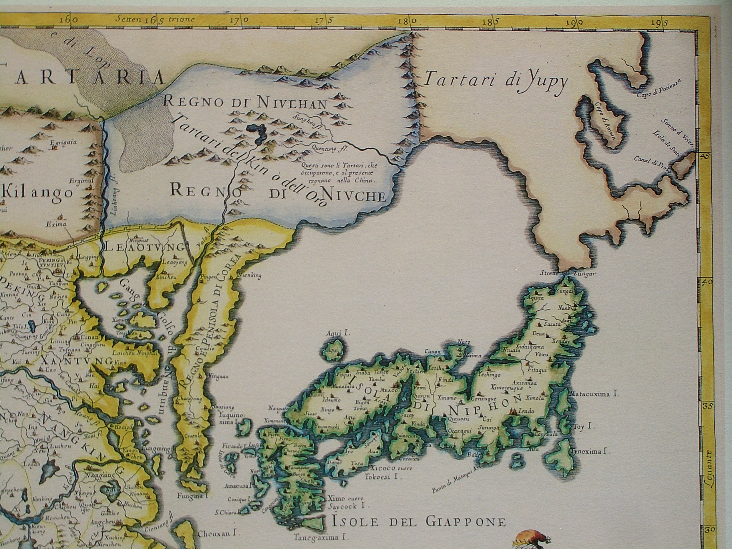 The north-eastern cornet of a map of China (in Italian): "The Kingdom of China, presently called Catay and Mangin, divided into its principal provinces on a most precise map". This part shows includes Sea of Japan and Japan itself. However, neither the La Pérouse Strait nor the Strait of Tartary were known to the cartographer, and therefore Hokkaido and Sakhalin are all part of the mainland, populated by the "Yupi Tartars" (i.e. the "Fishskin Tartars" - the old Chinese name for the Nanai people and related groups). However, the eastern coast of Sakhalin, with Cape Aniwa and Cape Patience are already charted more or less correctly (thanks to a Dutch expedition in the 1640s). Sakhalin and Hokkaido are both represented as one peninsula in Yupi Tartars, and are separated from Japan by "Stretto di Züngar" (today Tsugaru Strait), between today Hokkaido and Honshu (Isola di Niphon). Probably in reference of the city of "Züngar" (today Tsugaru) shown in north of Honshu.